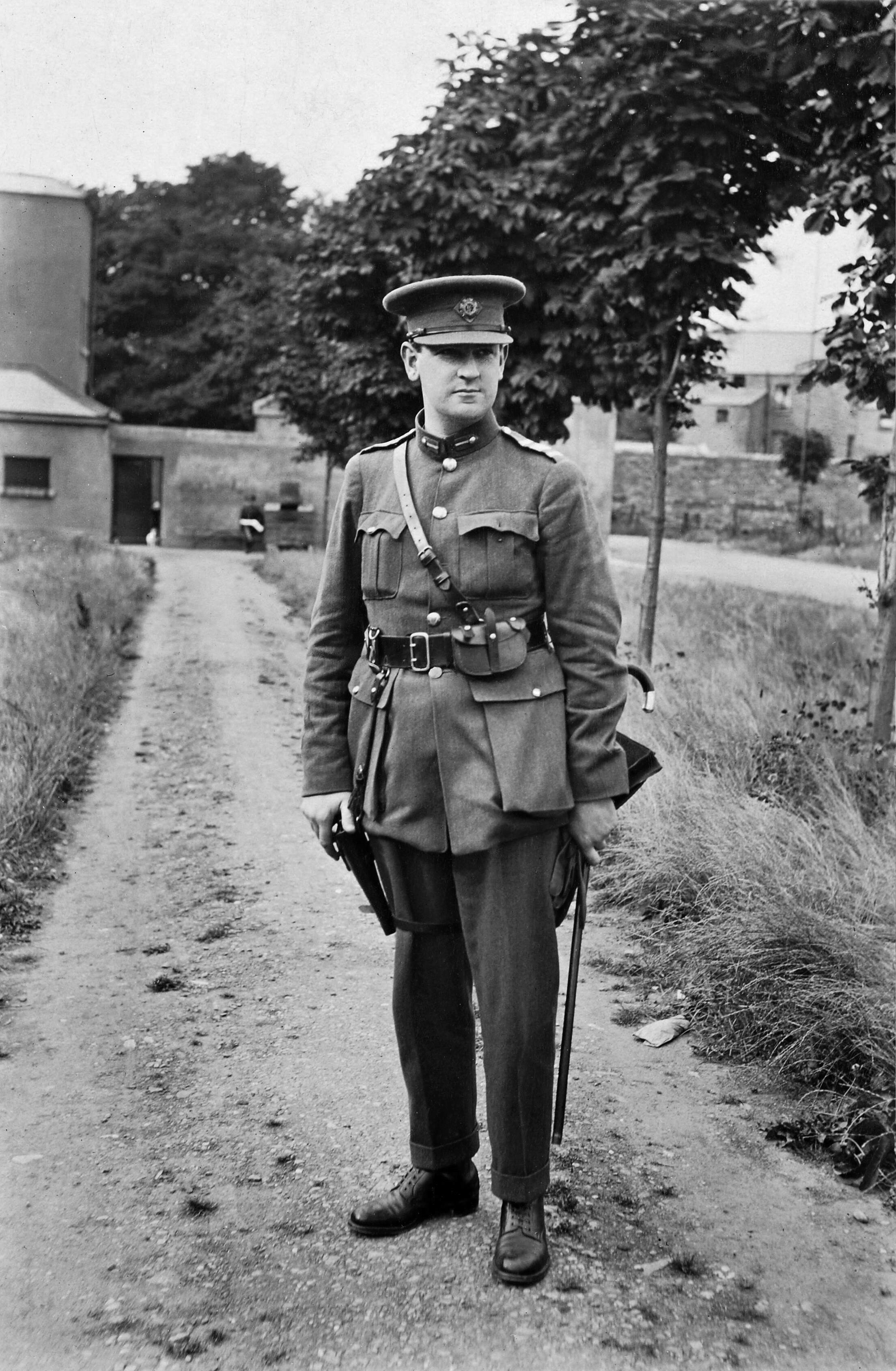 Irish revolutionary Michael Collins (1890 - 1922), leader in the Sinn Fein movement, stands outdoors on a dirt path, dressed in the uniform of Commander-in-Chief of the Irish National Forces.